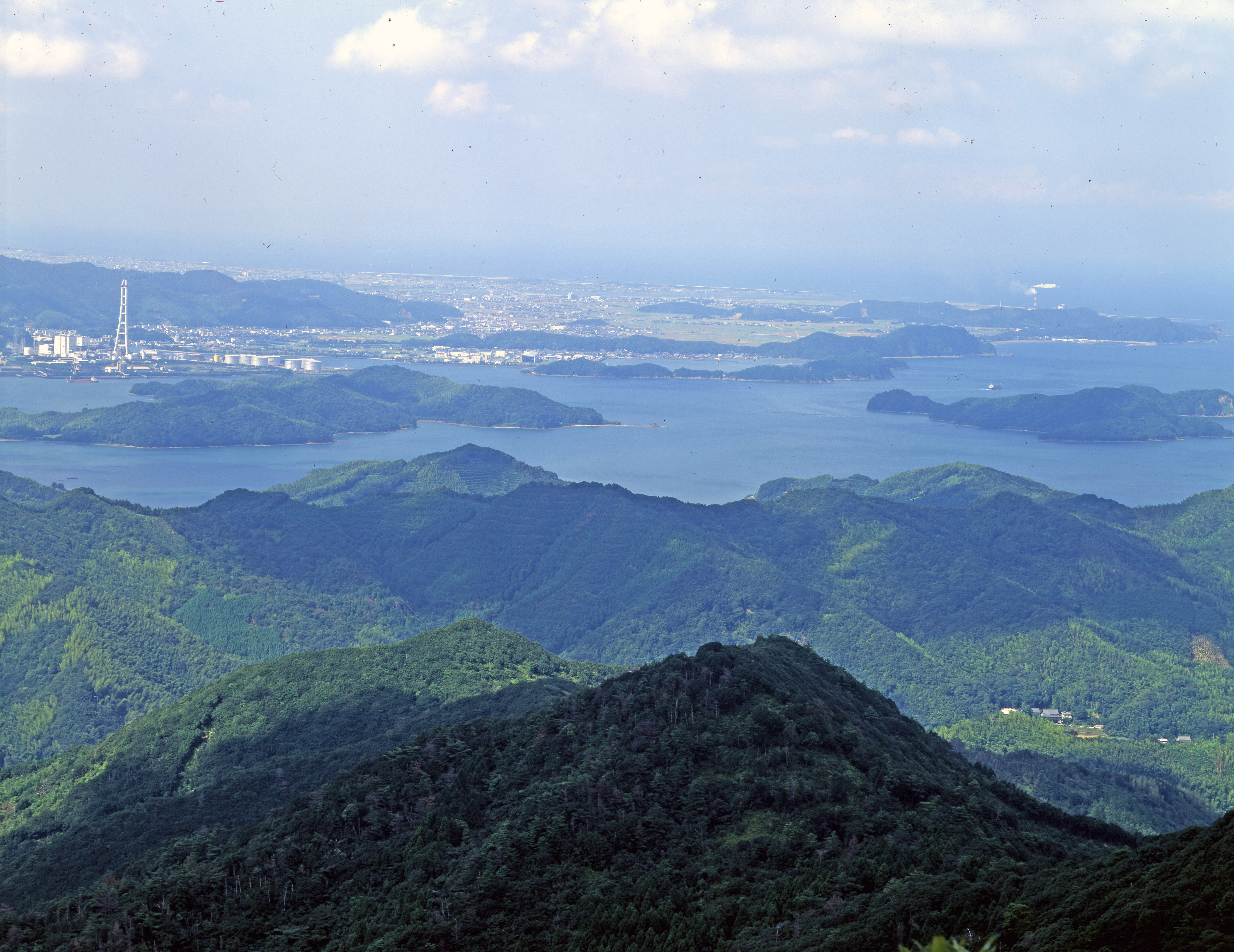 North view from Mount Myojin. Tachibana Bay in the center.